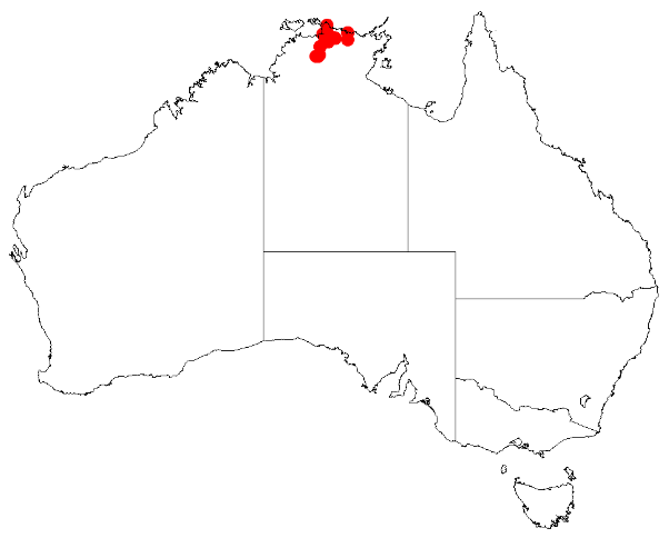 Acacia mountfordiae occurrence data from Australasian Virtual Herbarium downloaded from on 8 December 2018